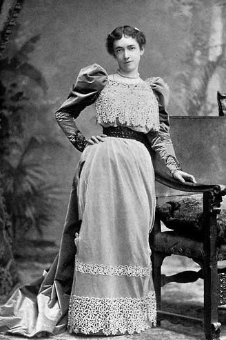 Elsie de Wolfe (also known as Lady Mendl) (December 20, 1865 – July 12, 1950) was a pioneering professional interior decorator in the United States.